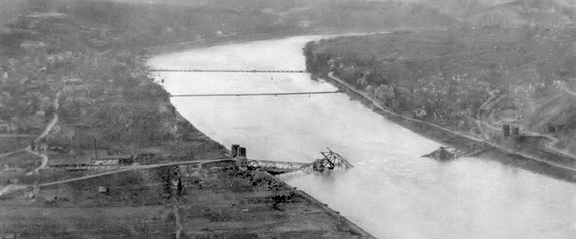 The Ludendorff Bridge between Remagen (left) and Erpel (right) after it collapsed into the Rhine River on March 17, 1945.